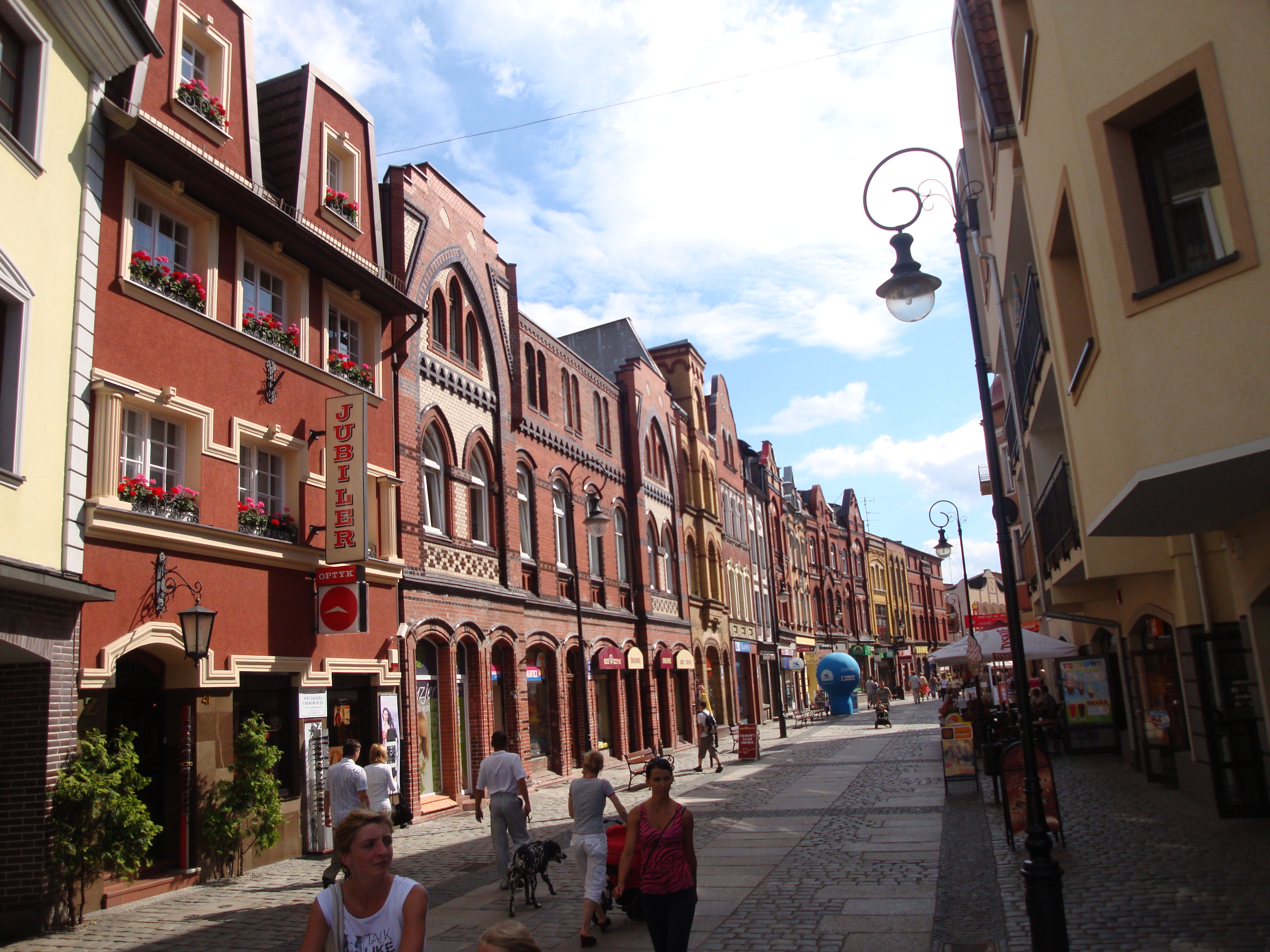 Street in Lębork, Poland